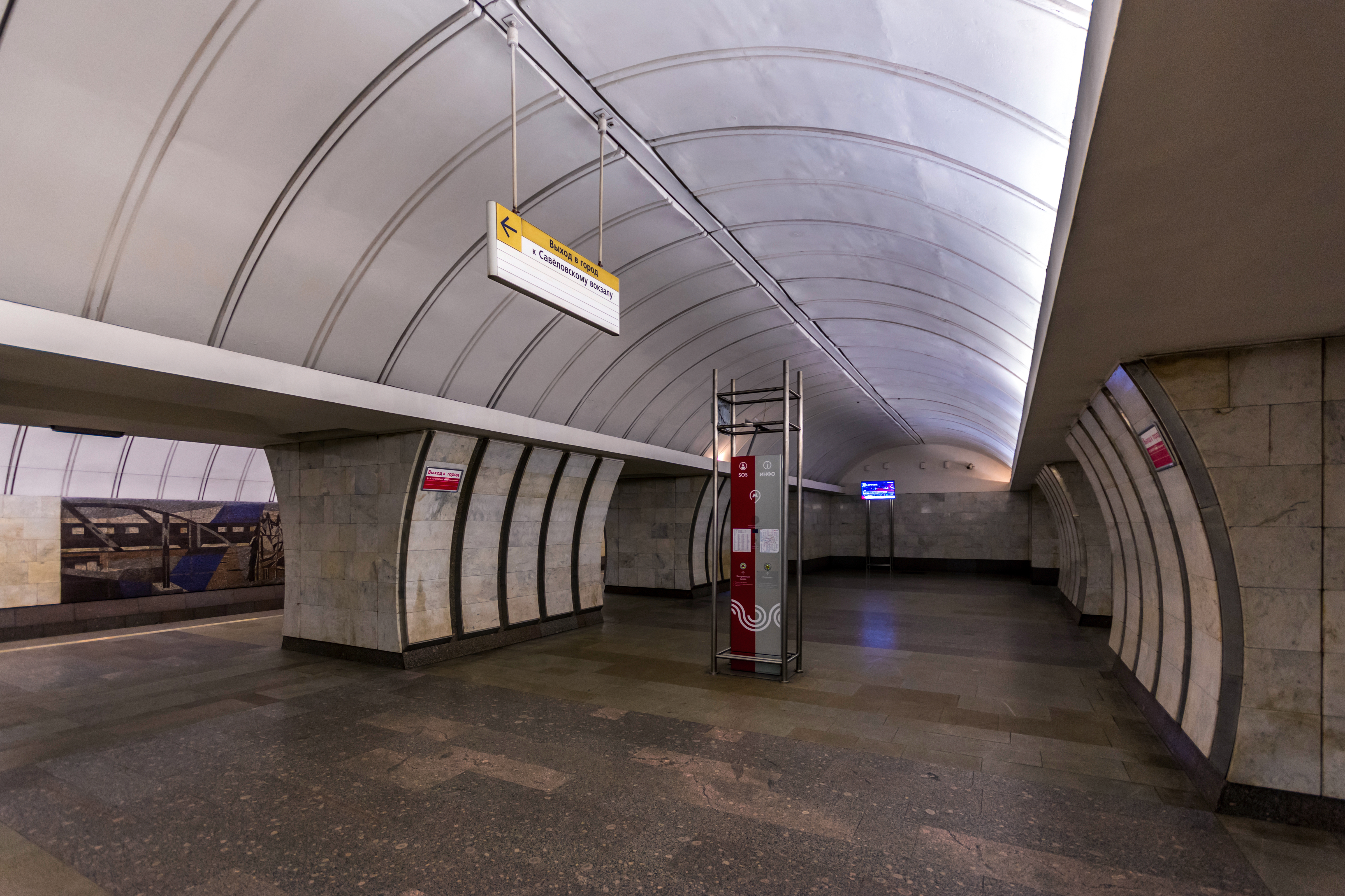 Savyolovskaya Station of Moscow Subway